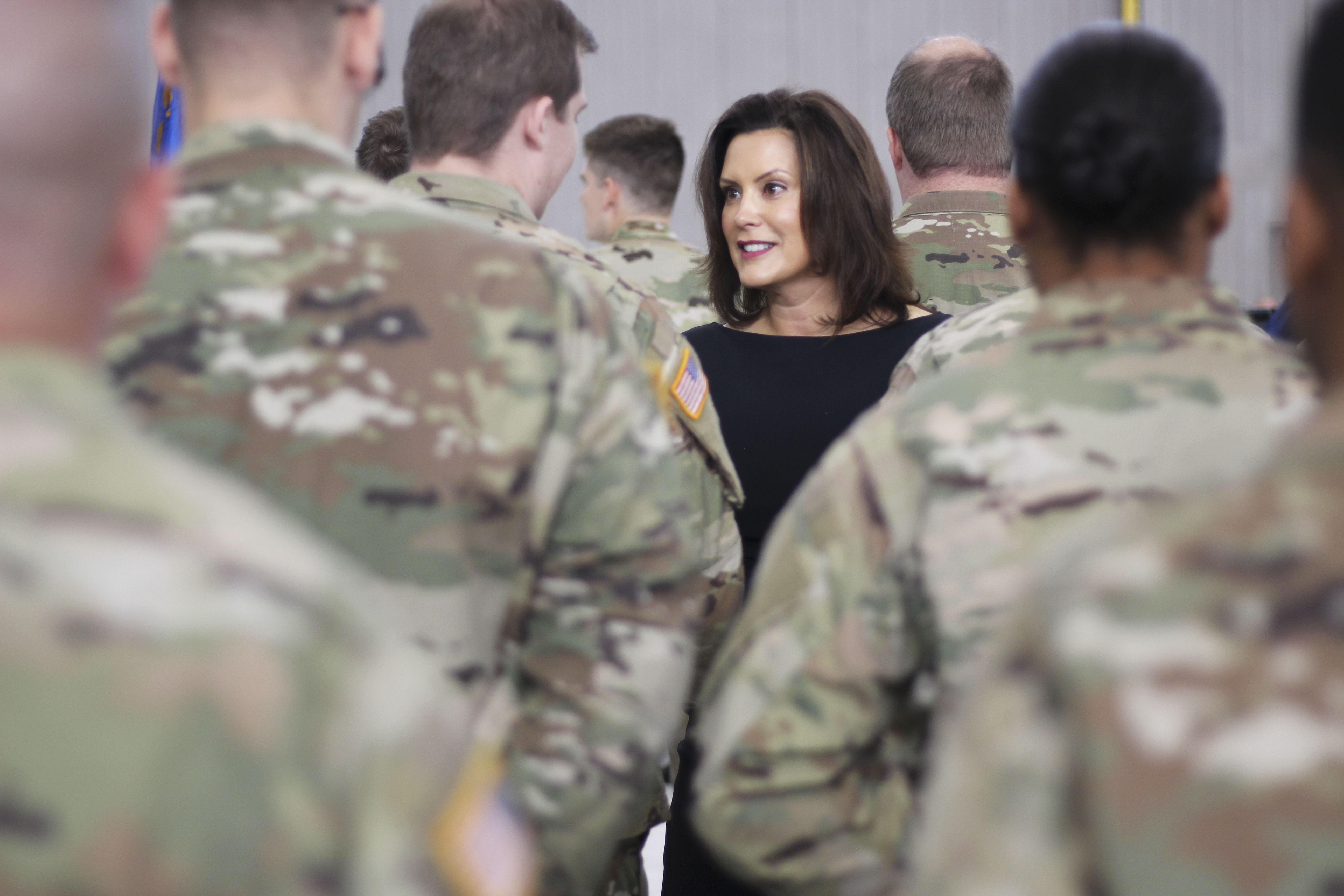 Gov. Gretchen Whitmer with MI Army National Guard